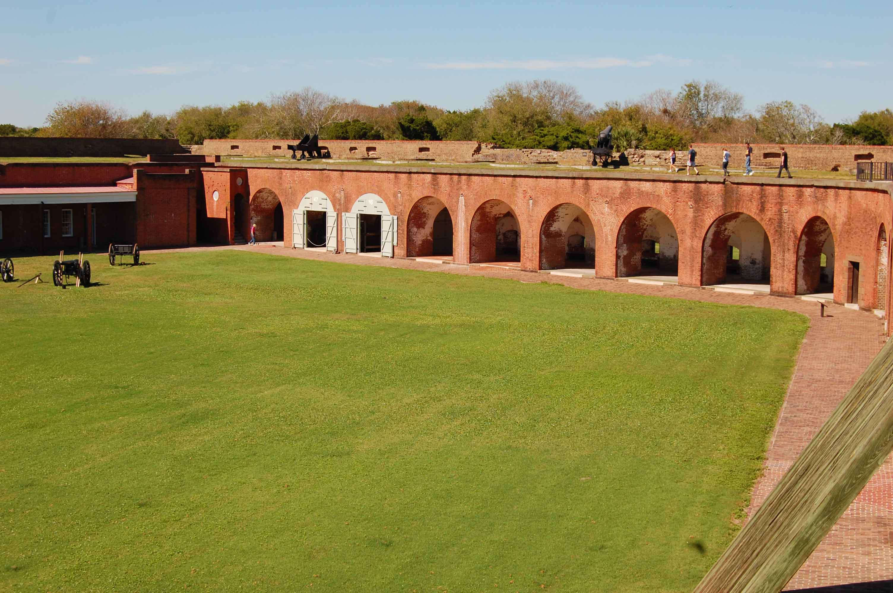 Inside of Ft. Pulaski